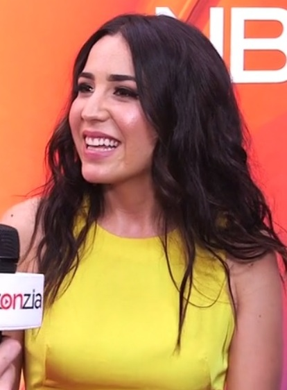 American actors Audrey Esparza and Rob Brown interviewed by Behind The Velvet Rope TV about their television series Blindspot.